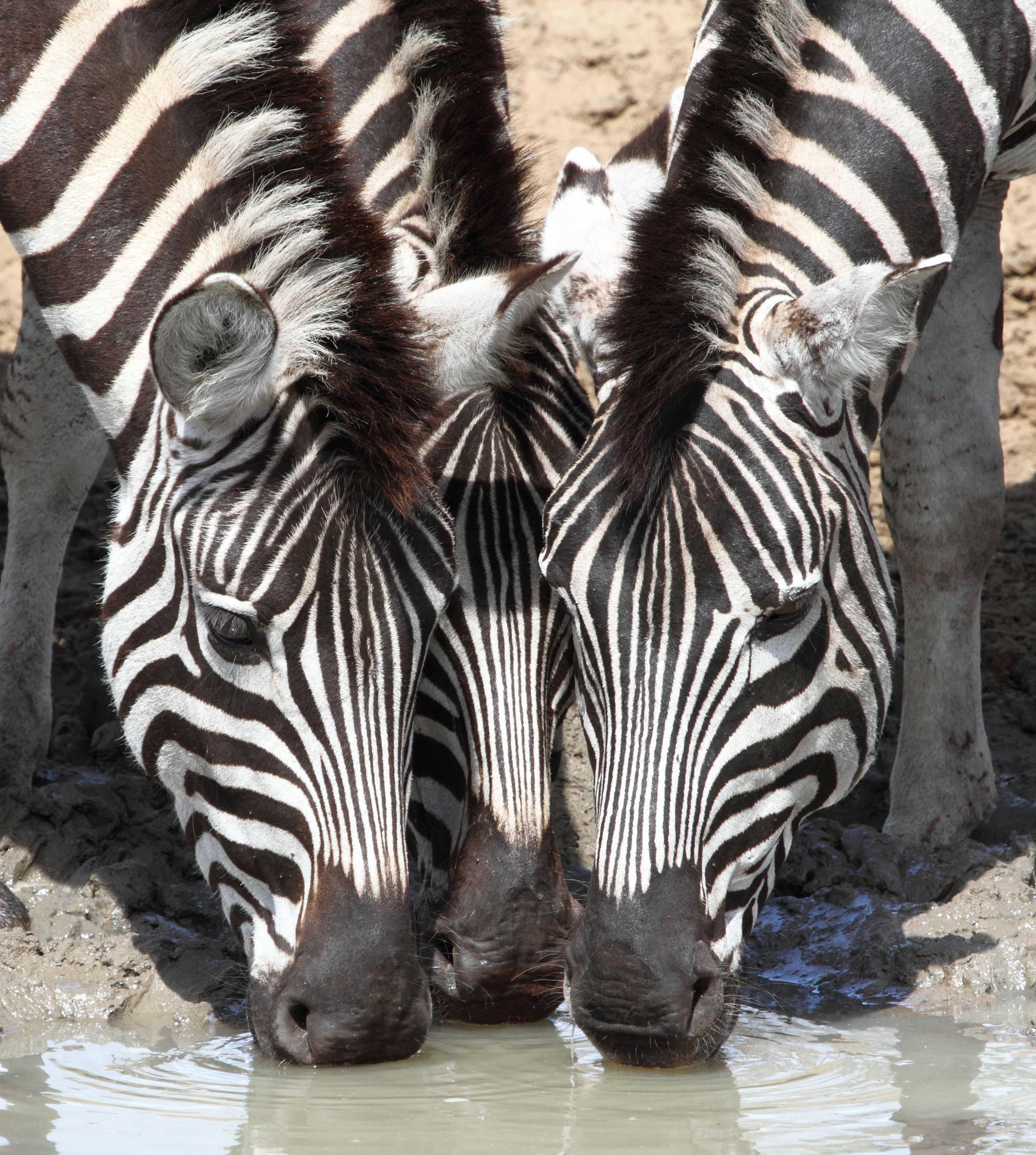 Plains zebra (Equus quagga burchellii, formerly Equus burchellii) drinking at a waterhole; KwaZulu-Natal, South Africa.